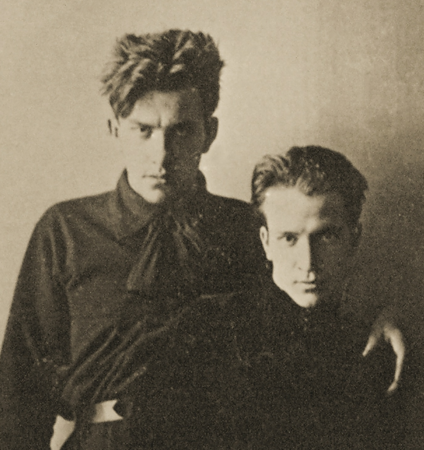 Леонид Кузьмин и Владимир Маяковский, 1912 год